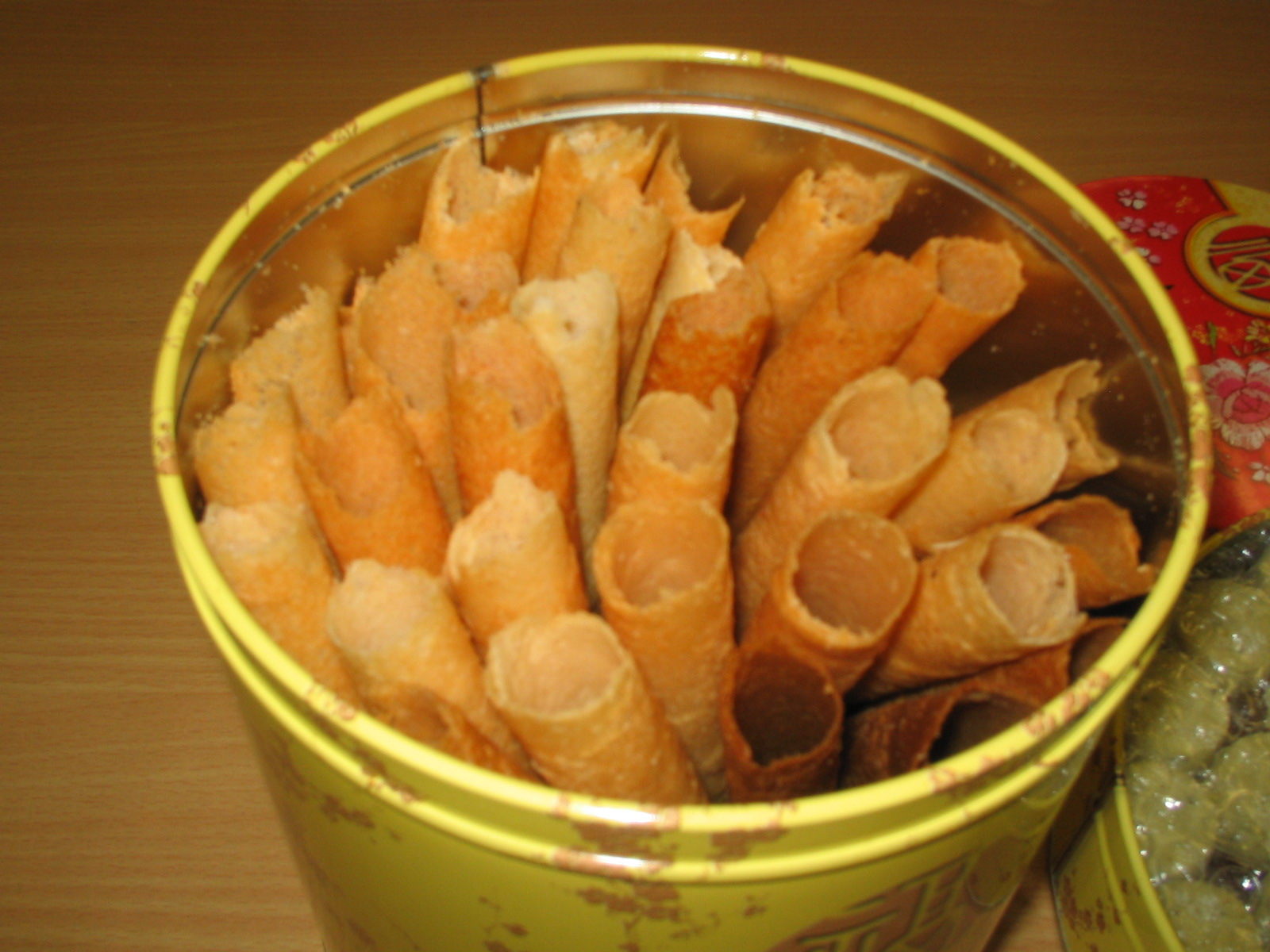 Love Letters (or Egg Rolls), a type Chinese New Year cookie.